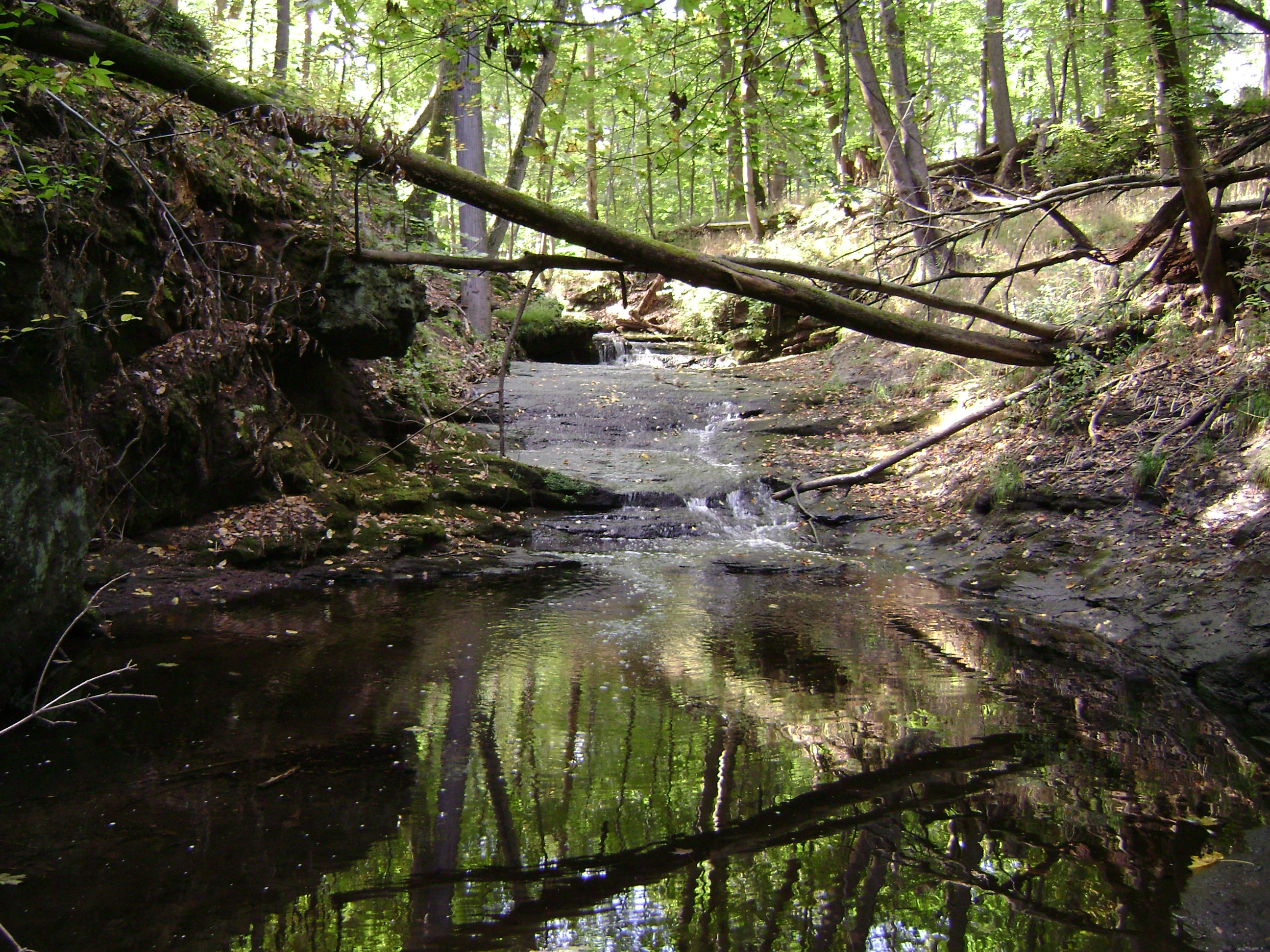 Photo of Deep Voll Ravine, in Wyckoff, New Jersey.